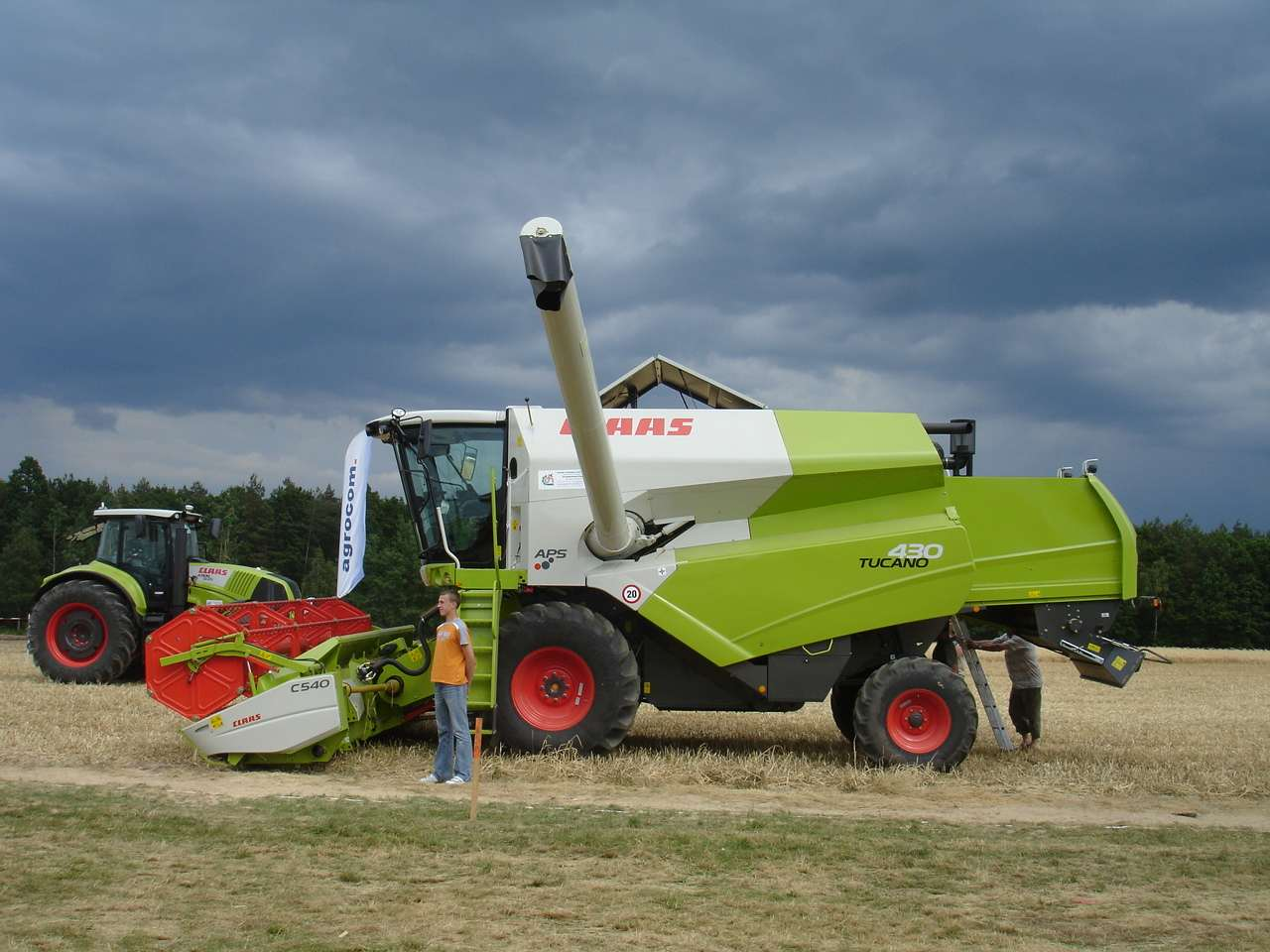 A Claas Tucano 430 combine with a Claas C 540 header, and a Claas tractor behind